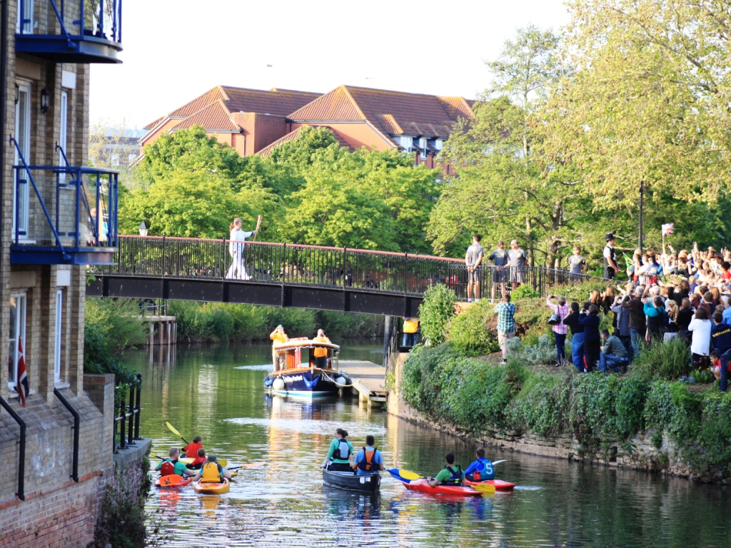 the Olympic Torch Relay reaches the County Ground in Taunton, Somerset, at the end of its third day. The following moring it would restart its journey on board the elctric boat moored at the pontoon below the bridge across the River Tone.